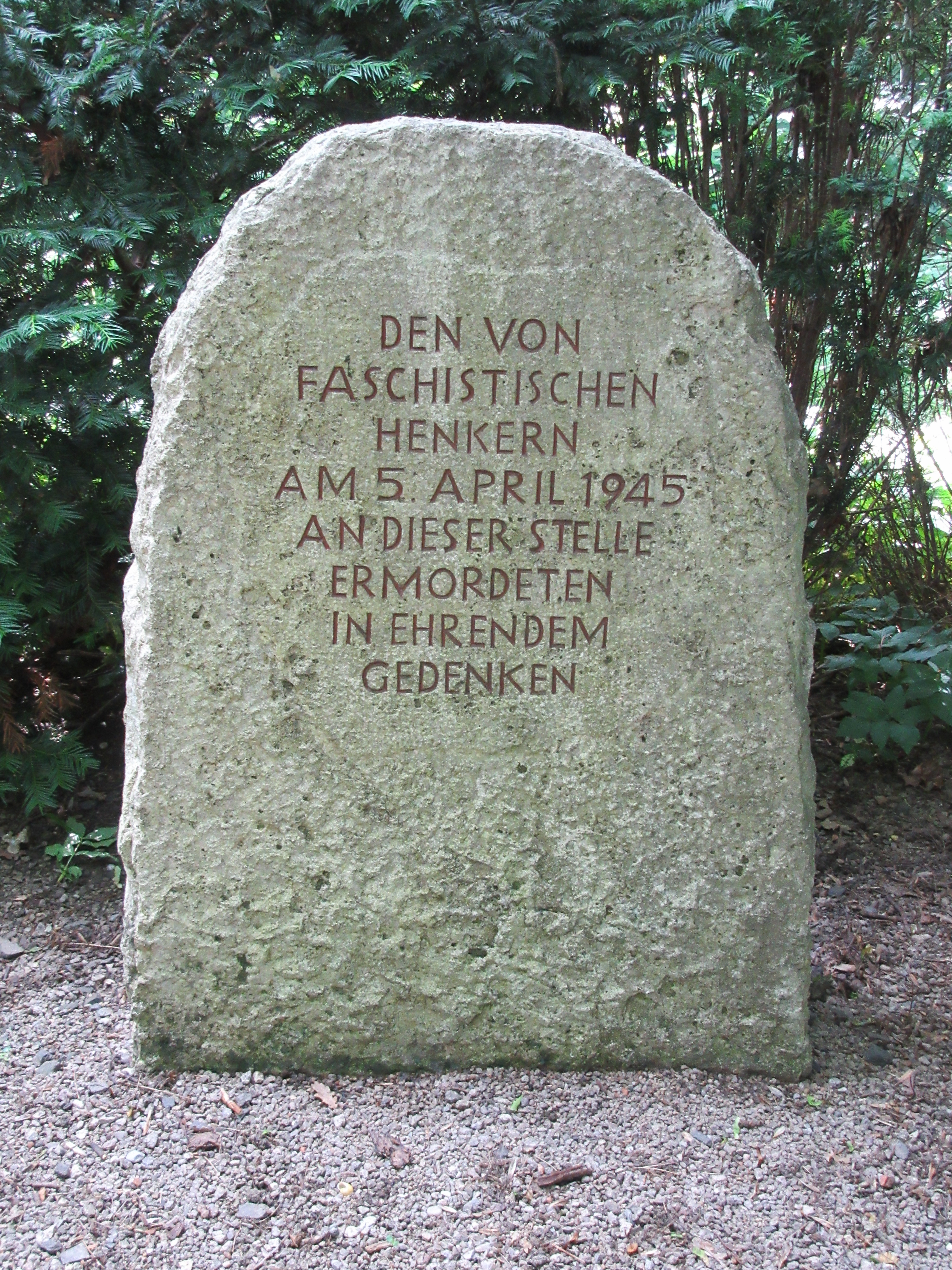 Webicht Memorial in Weimar